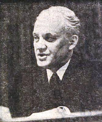 Sergej Kraigher